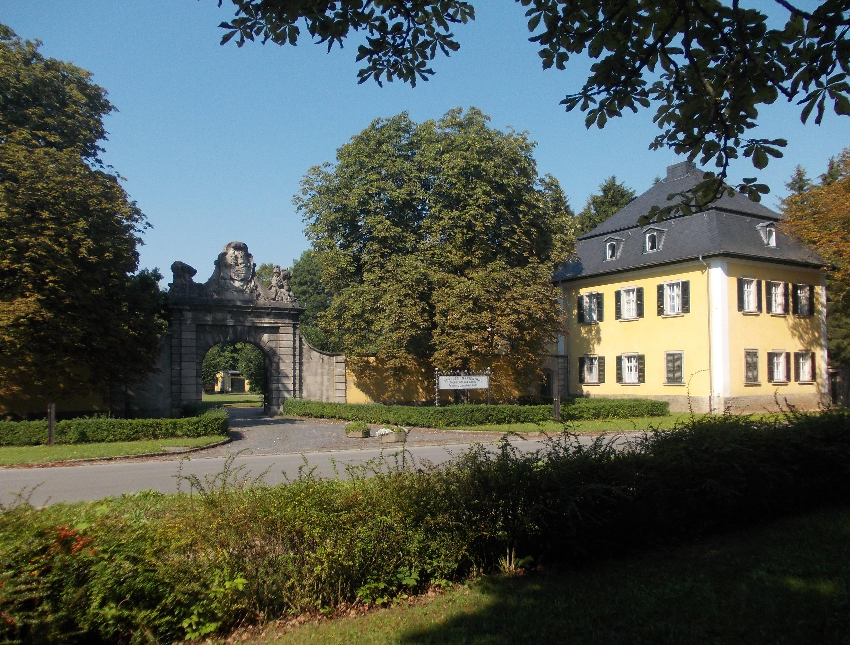 Marienthal Castle (Eckartsberga, district: Burgenlandkreis, Saxony-Anhalt)